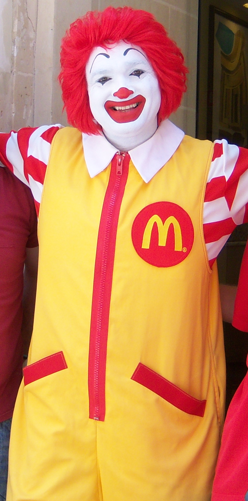 Ronald Mcdonald